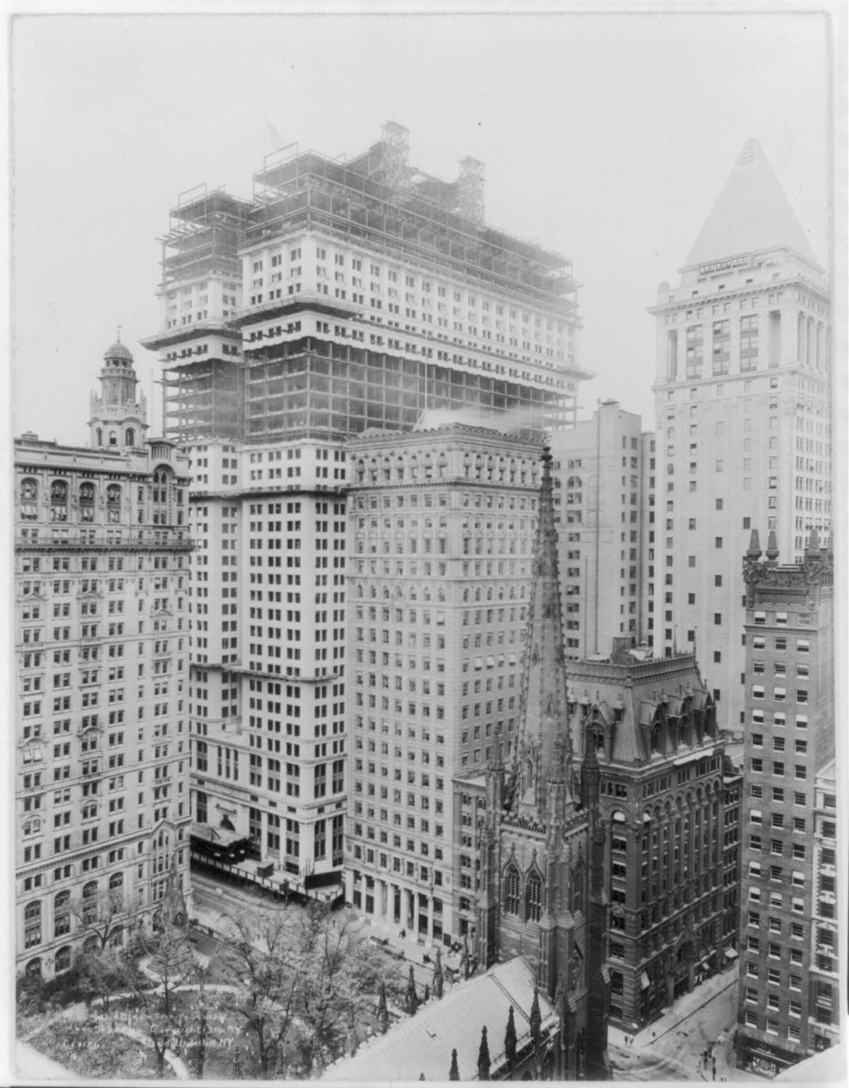 Equitable Bldg. and Trinity steeple, Manhattan, New York City, in 1914. Lesser skyscraper to the left is the Trinity Building.